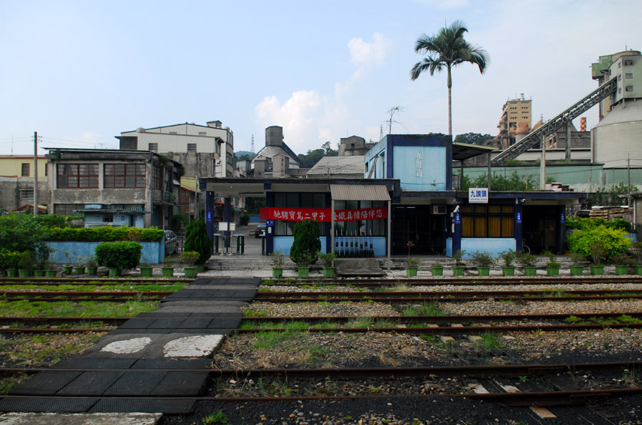 JiouZanTou Station is a local train station on NeiWan Line, a branch line of TRA. It's located within the boundary of HengShan Township, HsinChu County. This photo shows the platform side of the staiton.